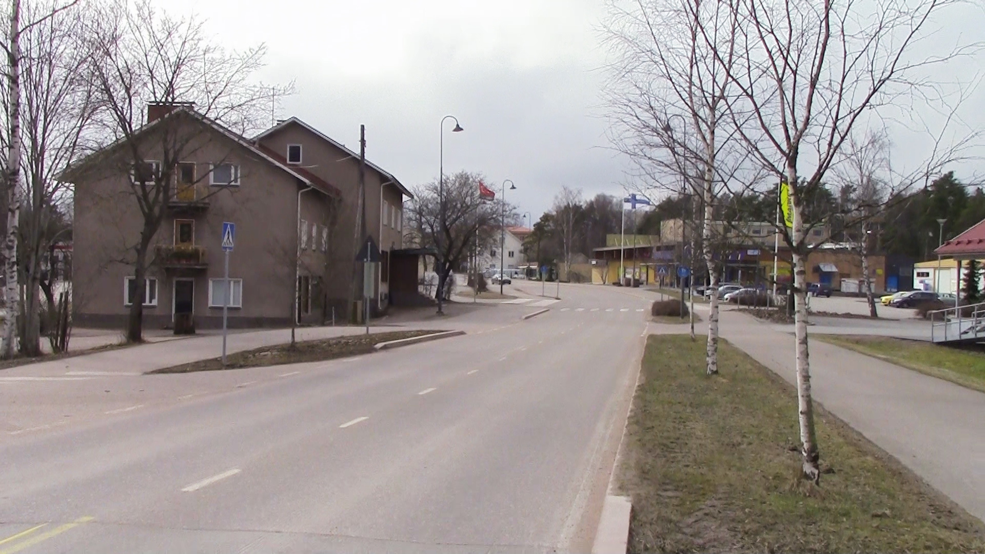 Connecting road 1950 at Vinkkilä village in Vehmaa. The road runs from Mynämäki to Vehmaa.